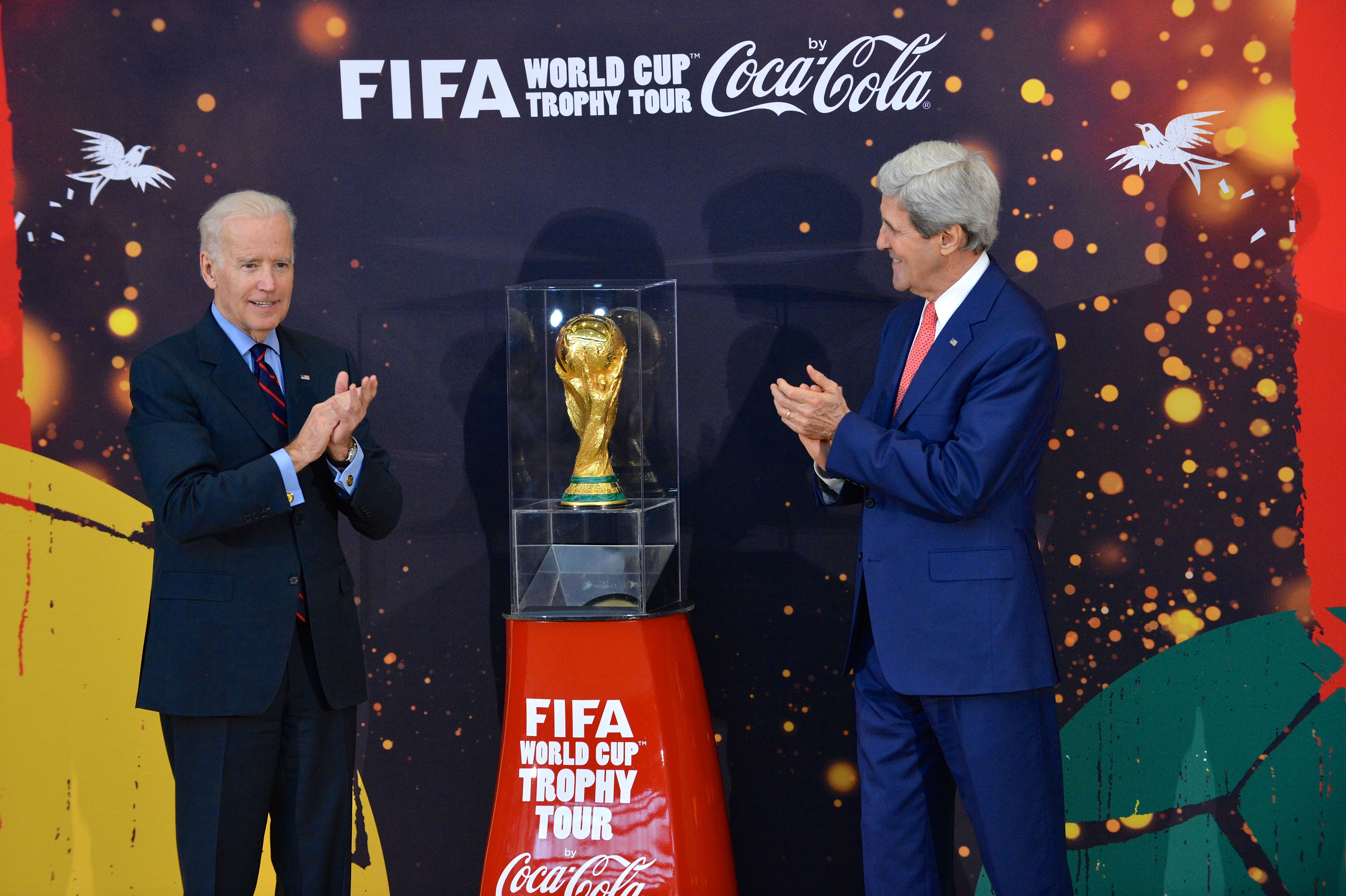 Vice President Joe Biden and U.S. Secretary of State John Kerry unveil the FIFA World Cup trophy during the FIFA World Cup Trophy Tour by Coca-Cola preceding the FIFA World Cup tournament in Brazil, which begins on June 12, 2014, at the U.S. Department of State in Washington, D.C., on April 14, 2014. [State Department photo/ Public Domain]